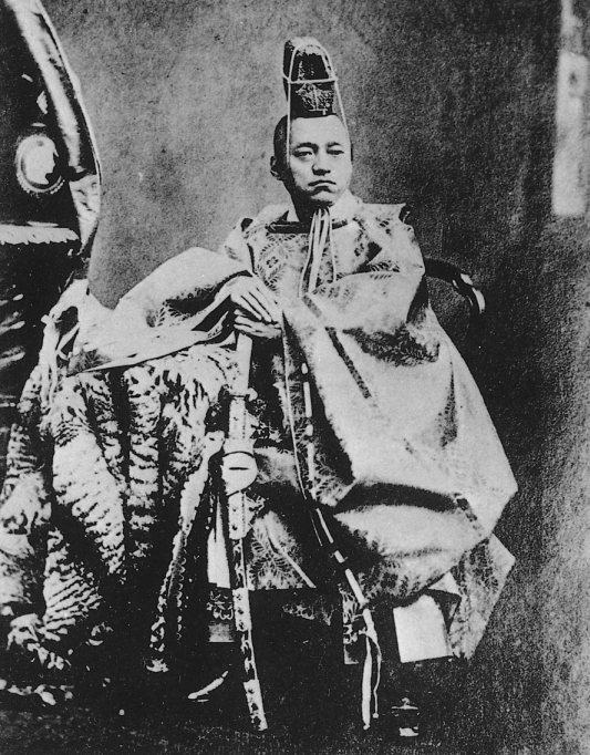 Portrait of Iwakura Tomomi (岩倉具視, 1825 – 1883)